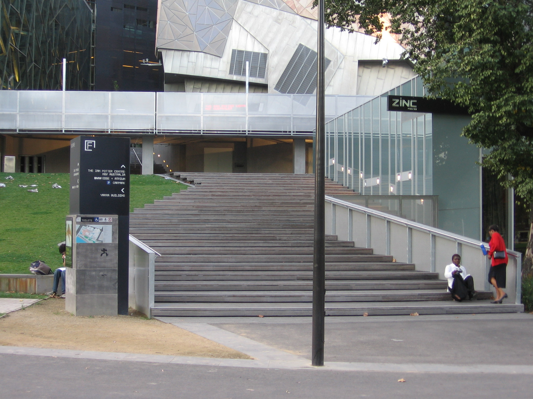 Entrance Ian Potter Centre - NGV Australia in Melbourne